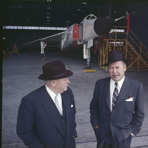 Sir Roy Dobson and_Crawford Gordon Jr. in front of the first Avro Arrow, RL-201 at the Malton Avro Canada plant